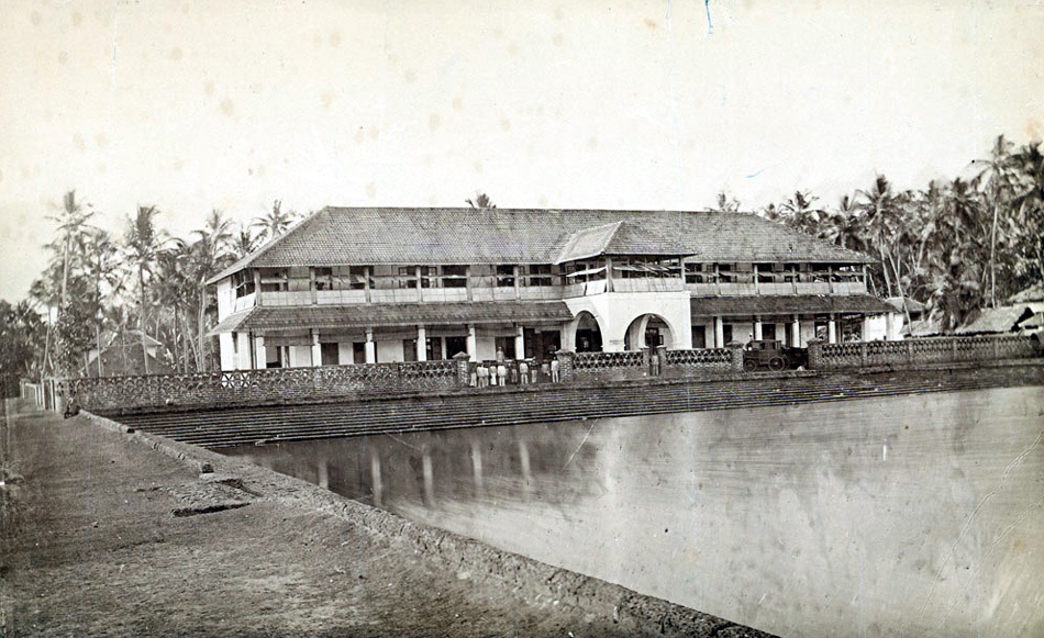 Mananchira Ground Calicut, Kerala